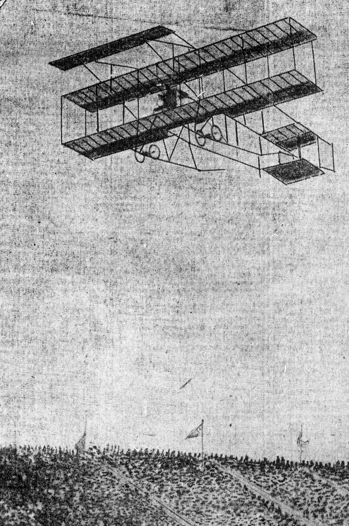 A Farman III biplane at a Los Angeles airshow in 1910